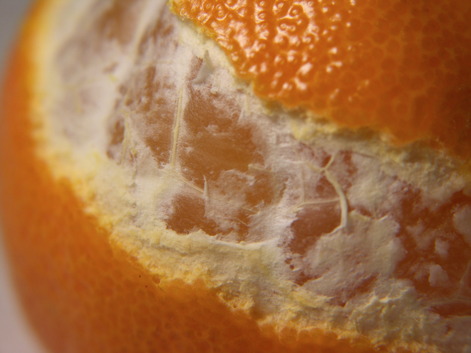 Photo taken by Tokugawapants using Konica-Minolta A200.